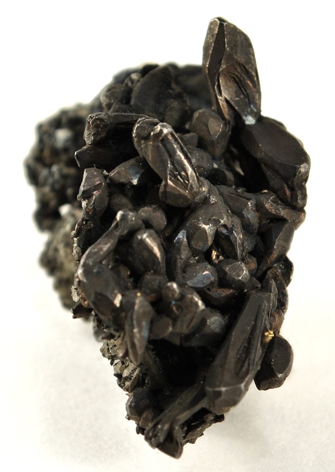 Hessite Locality: Botés, Alba County, Romania (Locality at ) Size: miniature, 3.5 x 2.5 x 1.2 cm Hessite An exceptional miniature with robust, spiky hessite crystals shooting out from a common core. This is classic type locality material, now hard to come by in good specimens! It is from the American Museum of Natural History in NYC, and note the early accession number #831, dating it to the 1800's. Anyways, most were mined by 1900, as well. With sharp crystals to nearly 1 cm, this is a choice example for the sizer and price range. The piece also has its original patina, and is not cleaned with acid, as you can tell by the associated calcite crystals in crevasses. Ex Lawrence Conklin collection, obtained in trade from the American Museum of Natural History. You can see it displays either horizontally or vertically